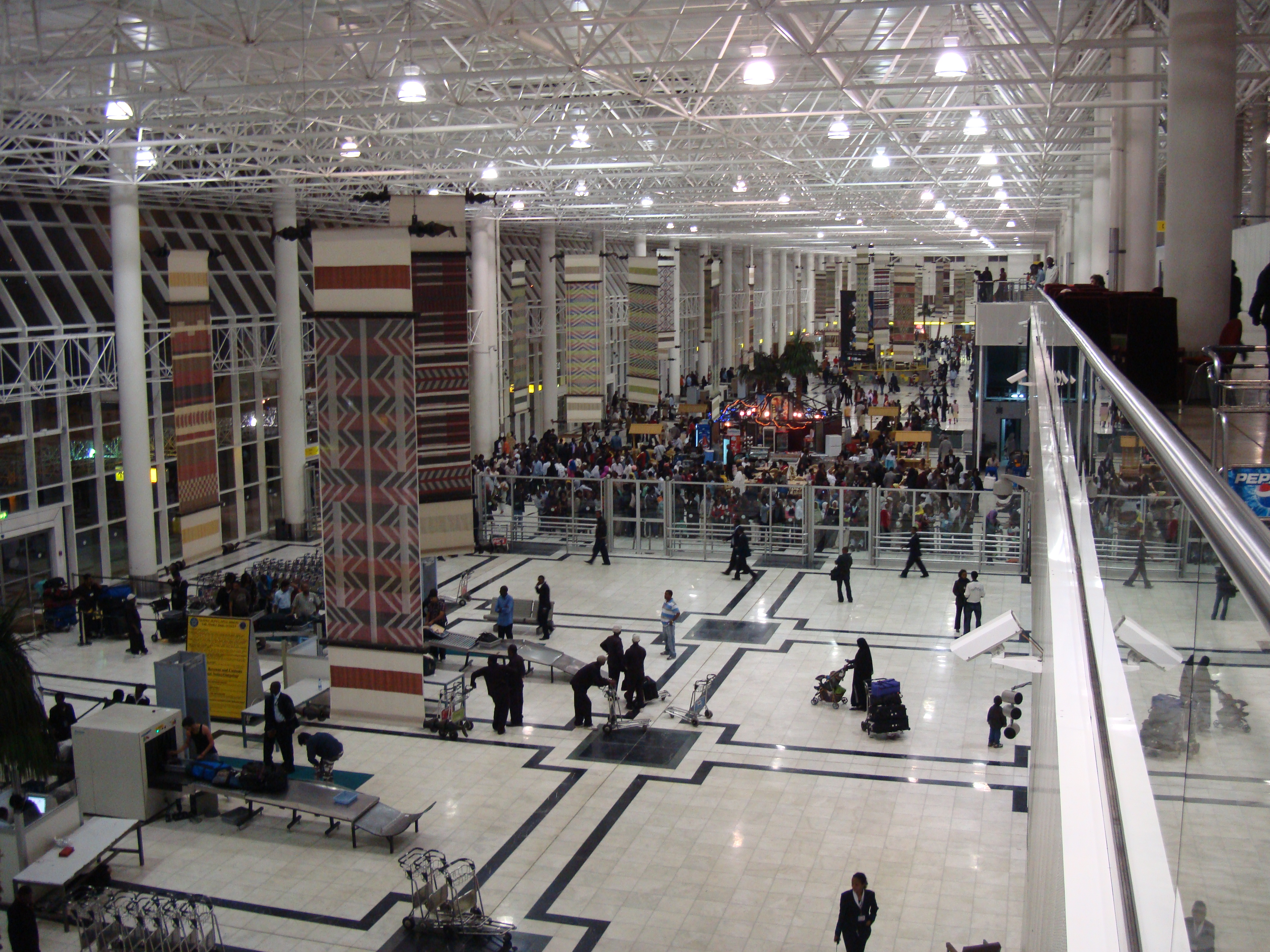 Bole international airport 2